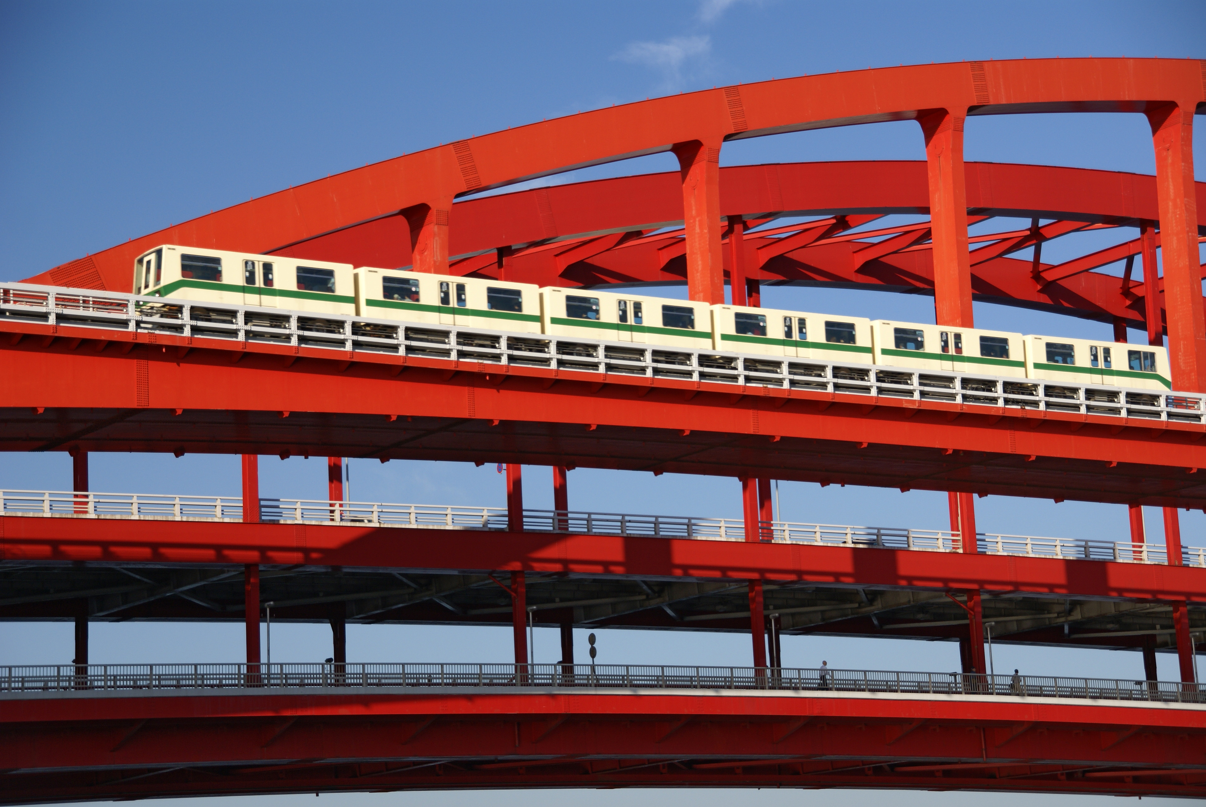 Port Liner on Kobe Bridge in Kobe, Hyogo prefecture, Japan)